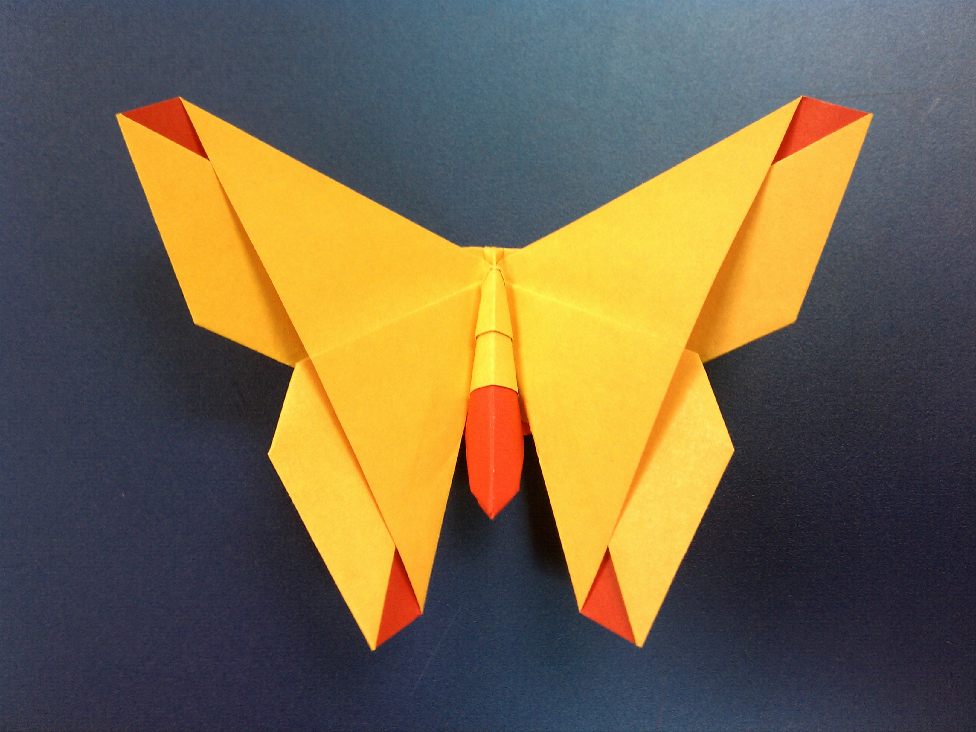 The AlicePaper: 15cm duo kamiDesigner: Michael G. LaFosseBook: Origami ButterfliesFolding time: about 5 minutes This is from the giant box of duo paper I got recently. This is the Origami Butterflies book that is *not* a kit with paper.